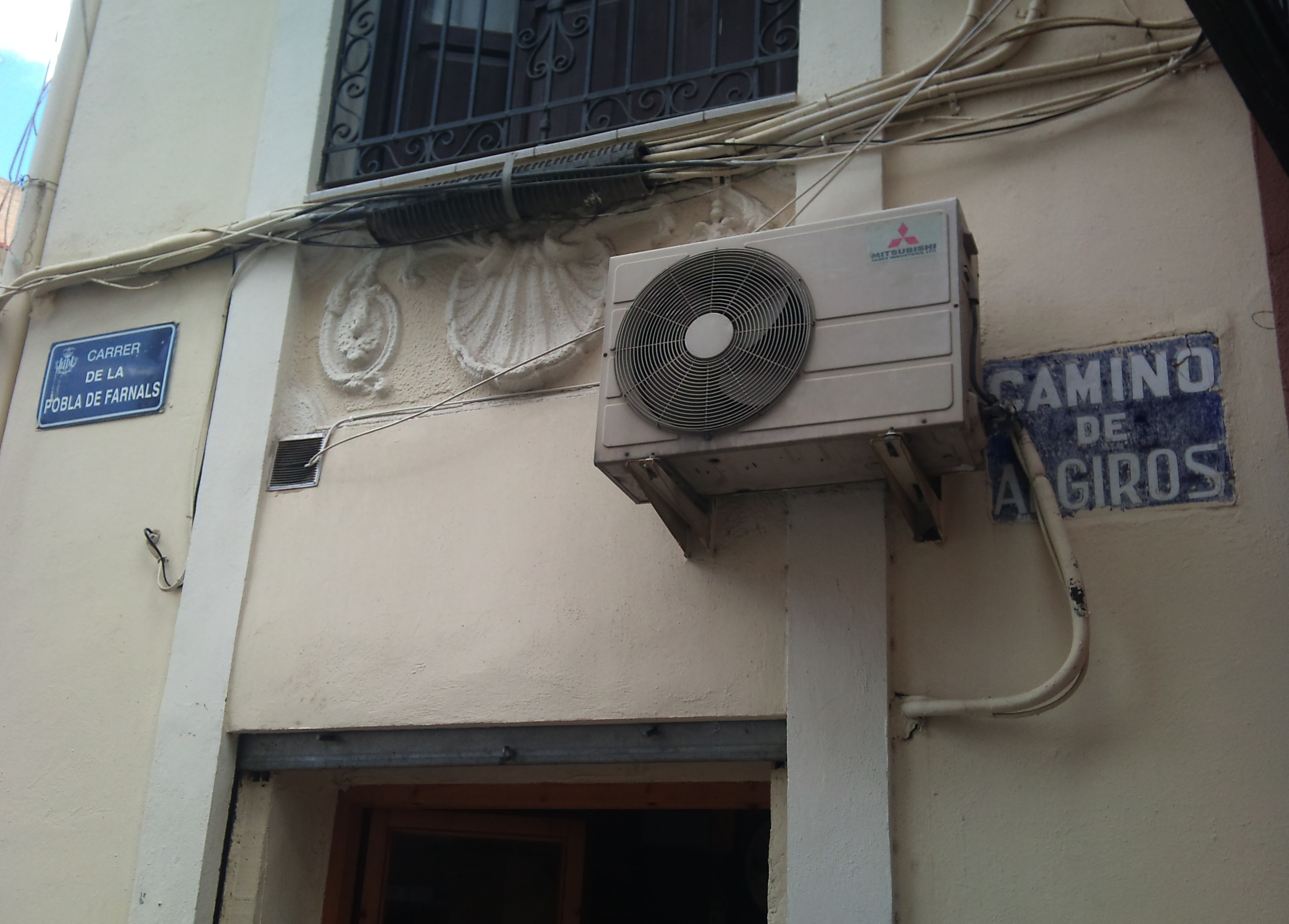 Street sign of the "Pobla de Farnals" street, in Valencia. Next to it We can read an Ancient sign from the "Road of Algirós".